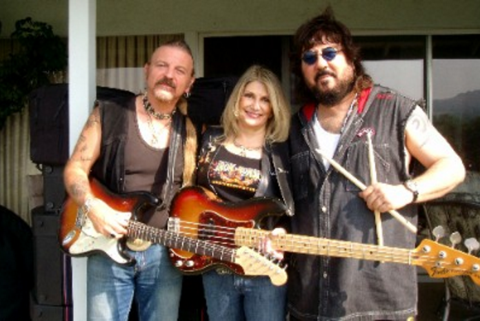 Jay-Gordon-blues-guitarist-sharon-butcher-bass-abe-perez-drum